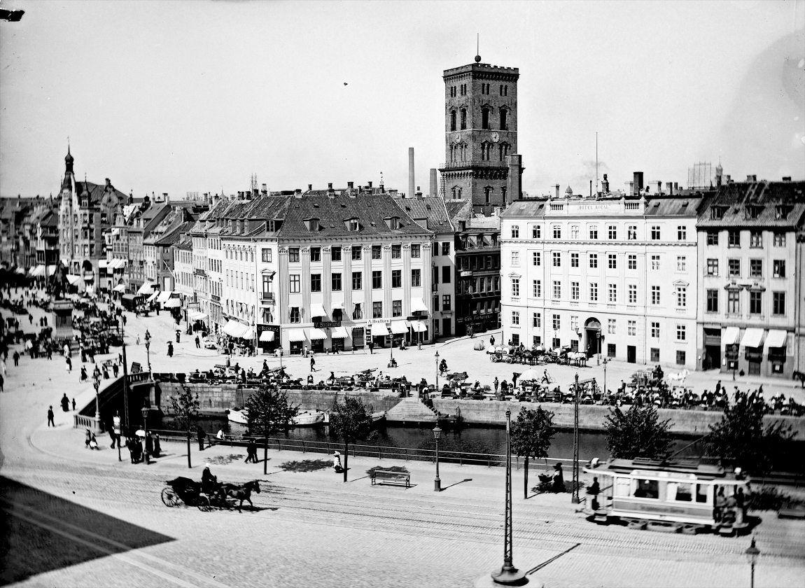 Ved Stranden in Copenhagen, Denmark